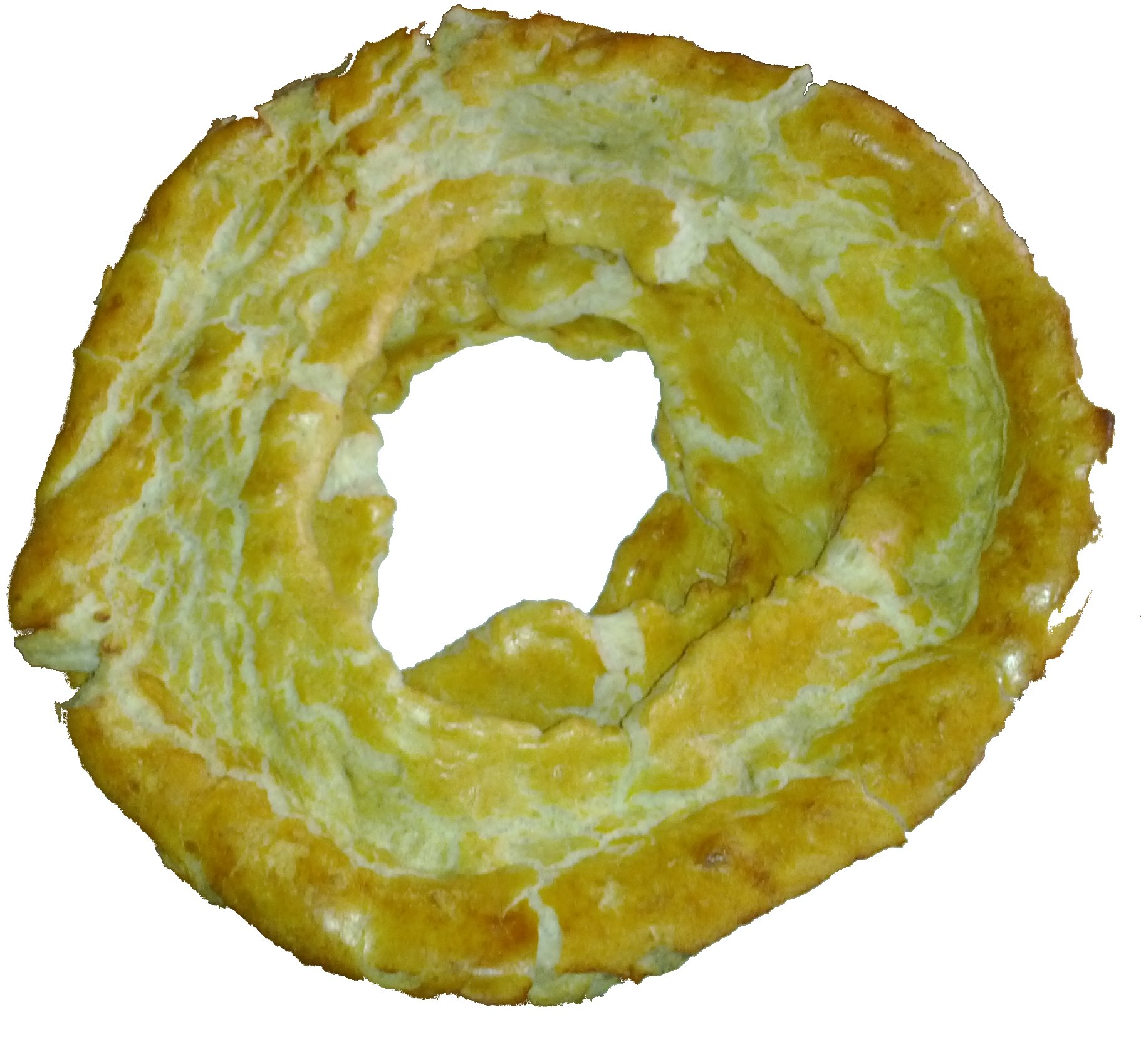 A Tortillon is a French pastry, a speciality of Bon-Encontre in southwestern France.